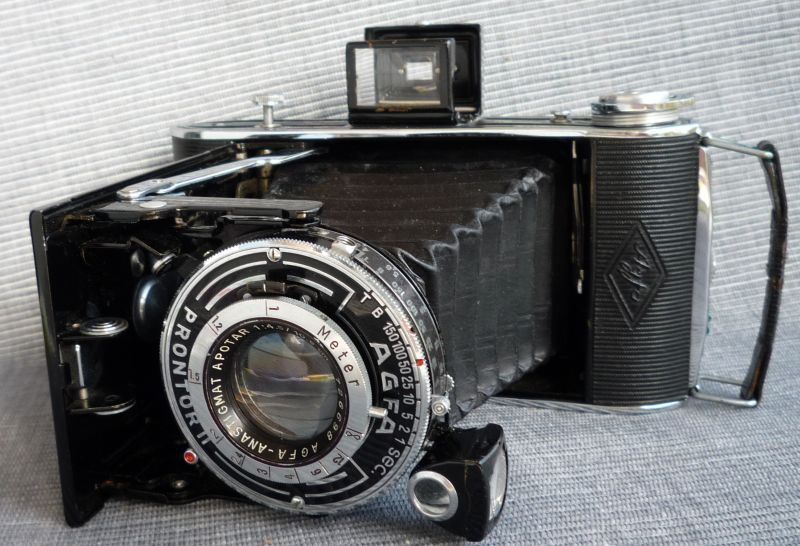 Camera "Agfa Billy Record", ca. 1938